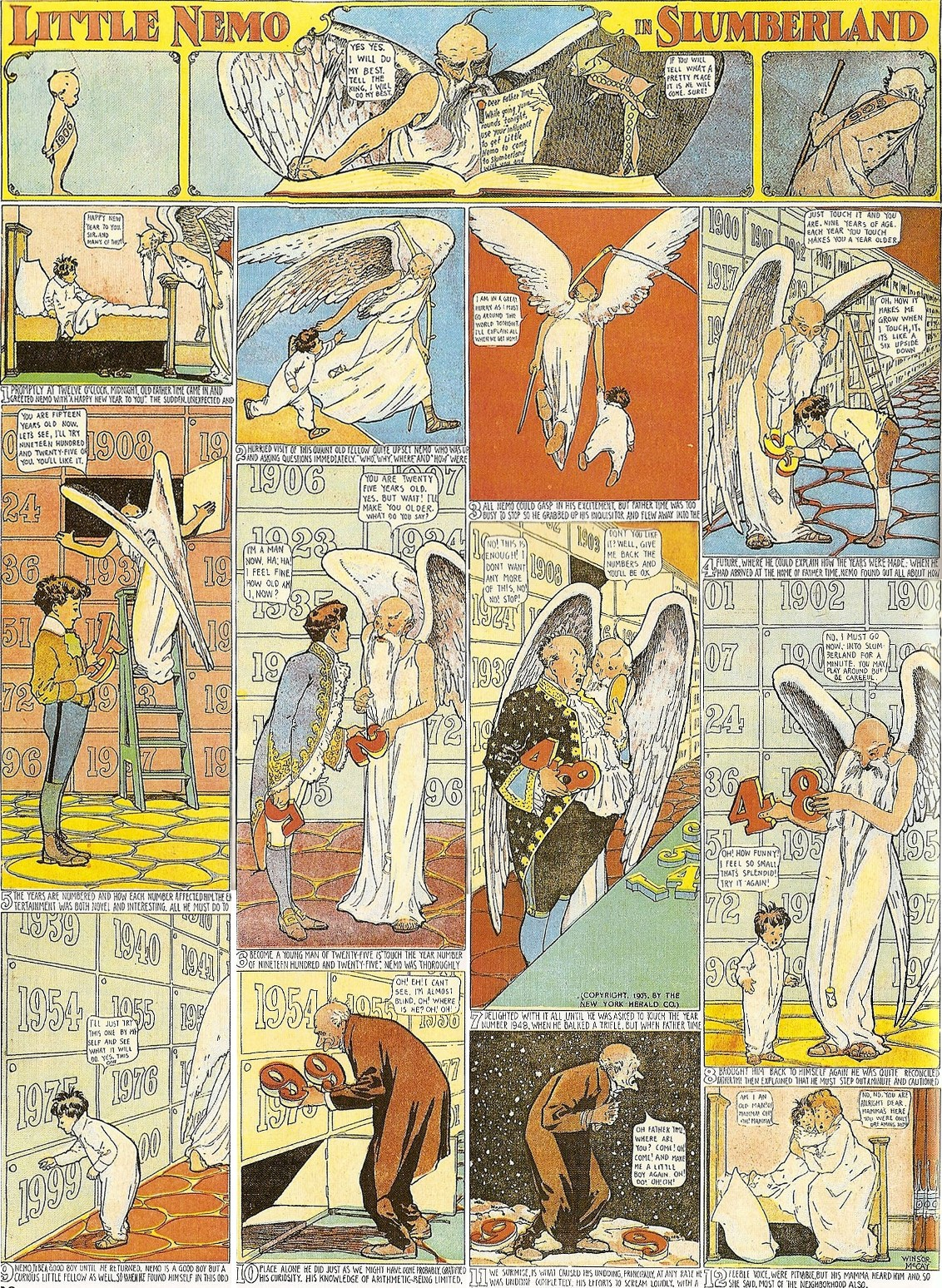 1906 Little Nemo in Slumberland cartoon by Winsor McCay.